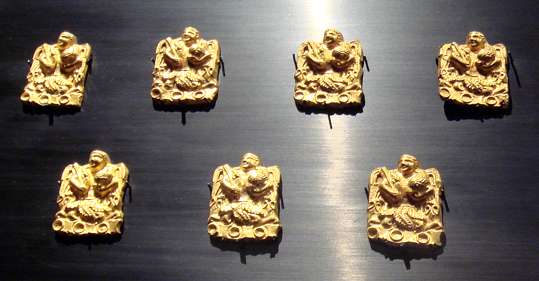 Hellenistic tritons with dolphins. Tillia tepe. Musee Guimet. Personal photograph 2006.